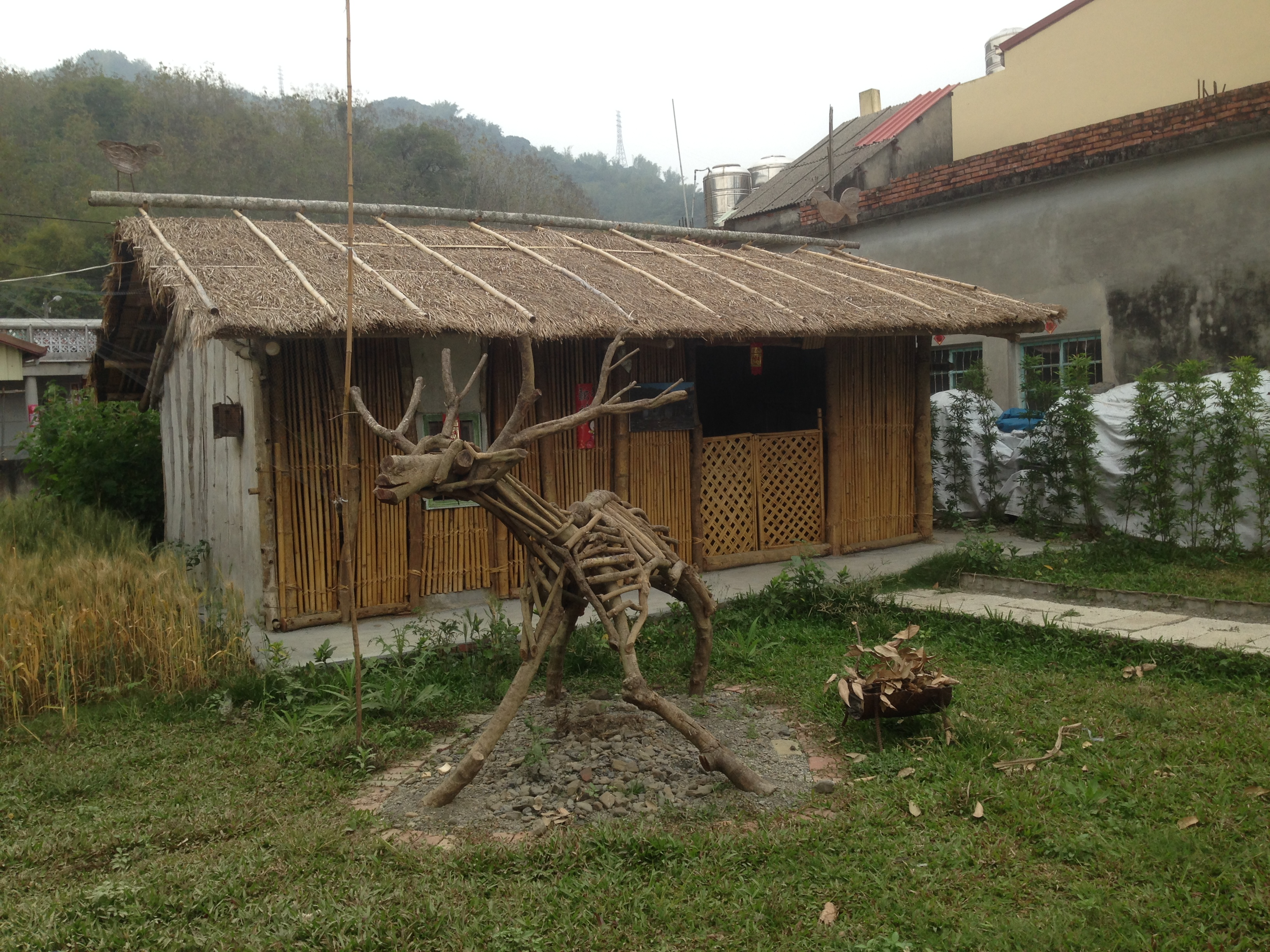 Pangliao of indigenous Taivoan.